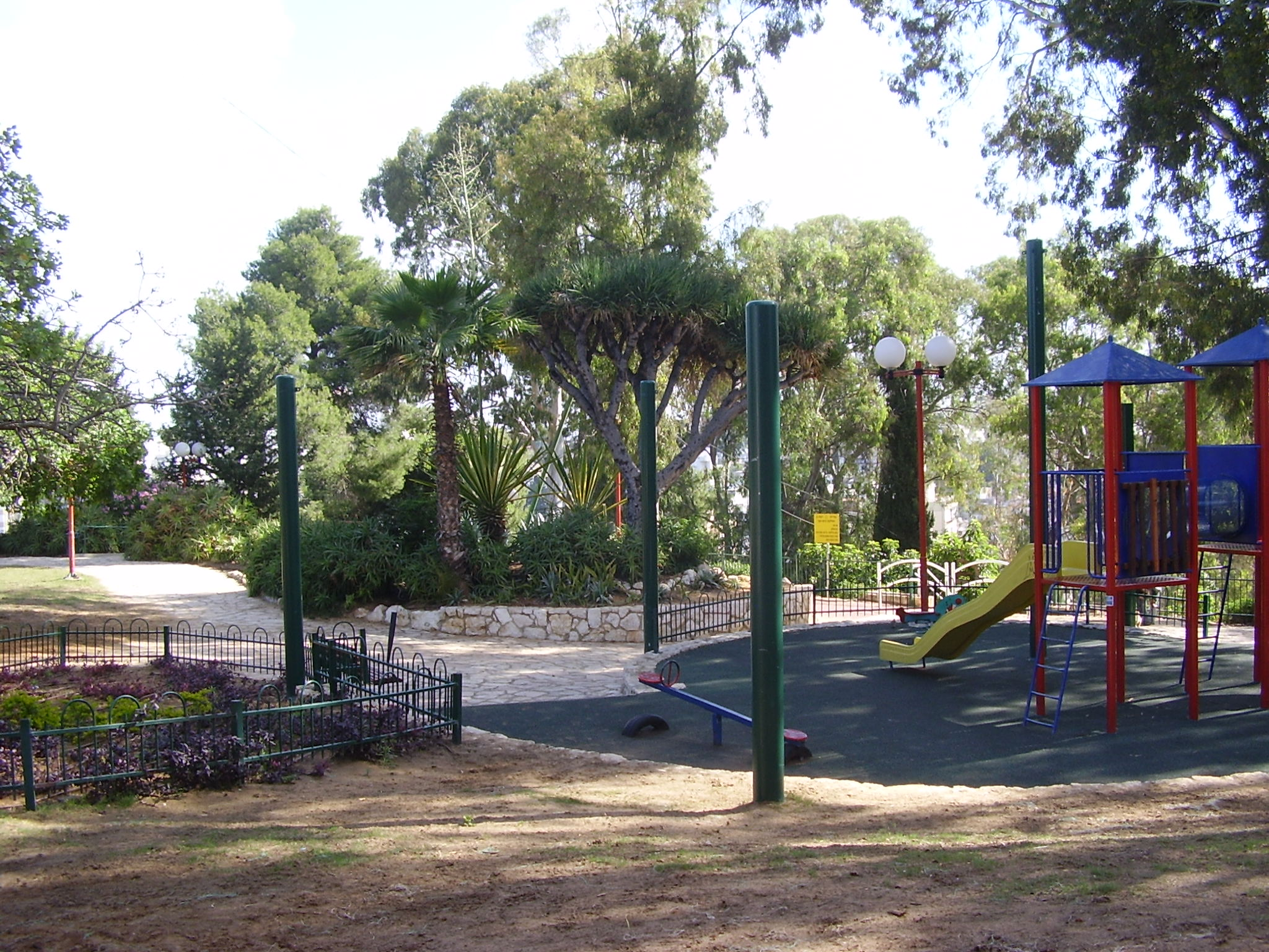 gan shaul in ramat gan,Israel